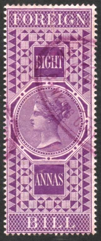 India 1861 8A Foreign Bill Stamp